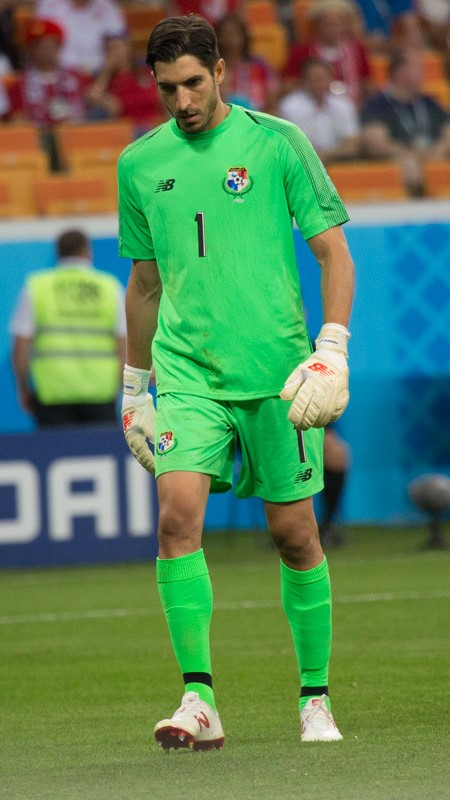 Jaime Penedo